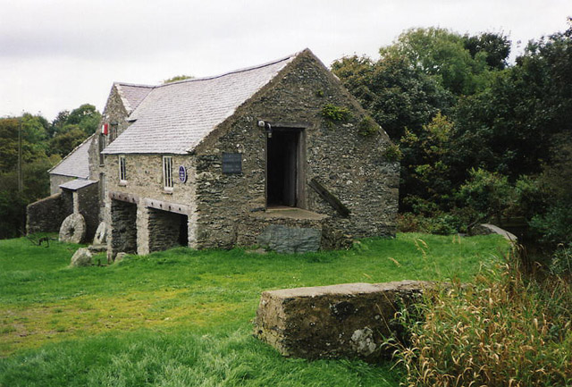 Llanddeusant: Melin Hywel. Melin Hywel or Howell, this watermill was restored in 1975 and has an overshot wheel. It is open to the public from Easter to September, on weekdays only. There has been a watermill on this site since 1352. Llanddeusant is believed to be the only parish or community in Britain which retains a working watermill and a working windmill, the Llynon mill - see SH3485, excepting Pakenham in Suffolk